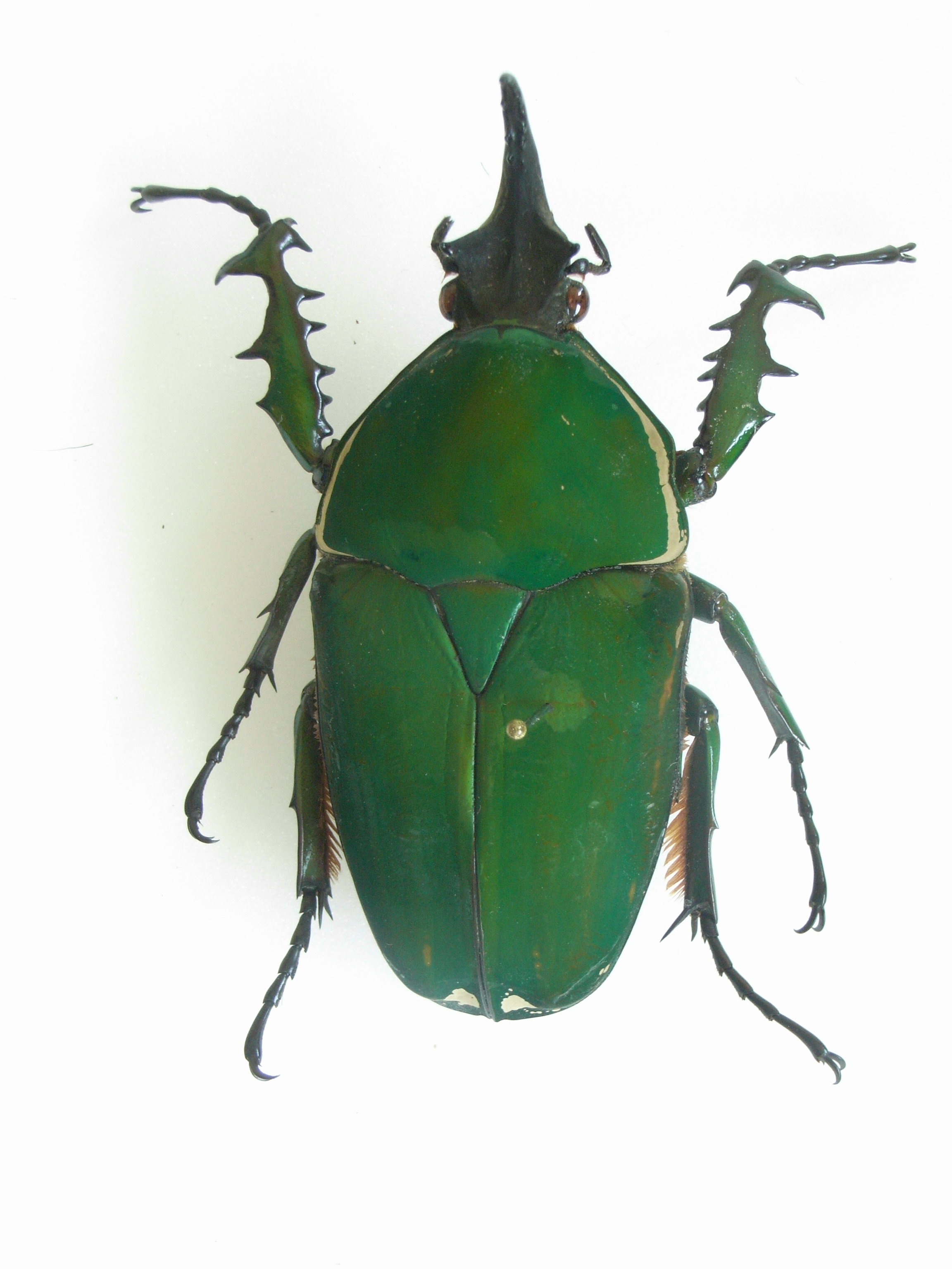 Mecynorhina torquata (Drury 1782) Ex coll. Felix Stumpe